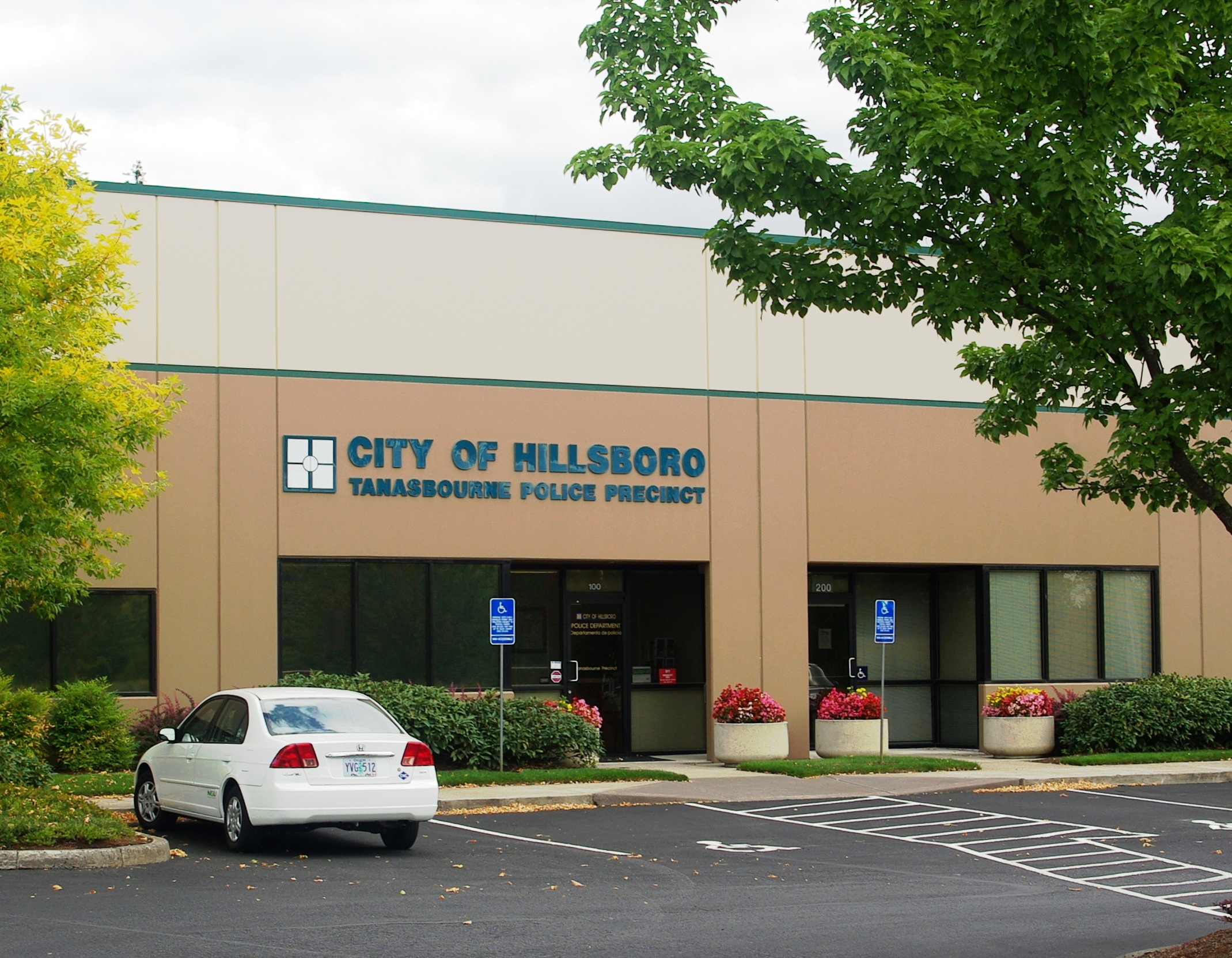 Hillsboro Police Department precinct in Tanasbourne neighborhood.